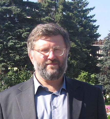 This is my own (Dmitri Capyrin's) photo. It was made by my wife Lidia Voitovich in Moscow specially for my website